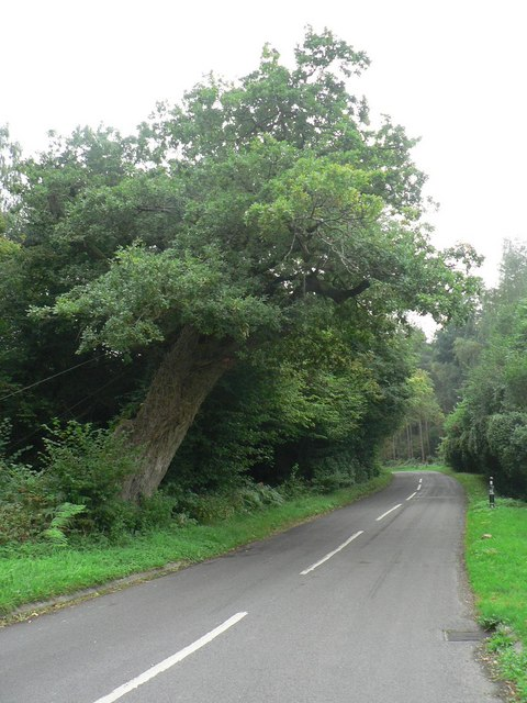 Sutton Holms: the Remedy Oak Tradition has it that King Edward VI (the 'boy king') sat beneath this tree and touched those suffering from scurvy and suchlike (known as the King's Evil). Sufferers could supposedly be cured of King's Evil by being touched by a reigning monarch. This is mentioned, albeit in far fewer words, on a plaque beneath the tree. Rather ironically, Edward VI died of tuberculosis at the age of 16. Metal ropes can be seen to the left, stabilising the tree.